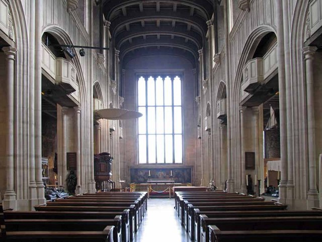 All Hallows by the Tower, Byward Street, London EC3 - East end, near to Bermondsey, Southwark, Great Britain.